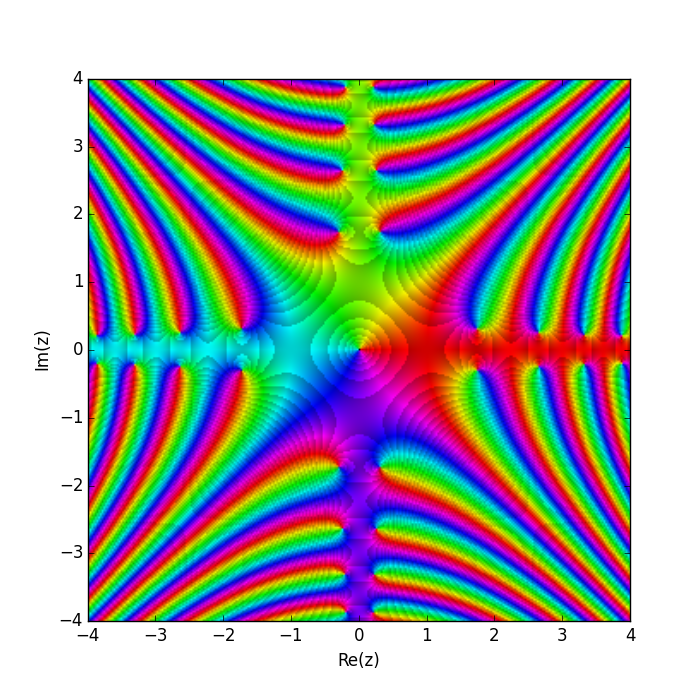 Complex Fresnel integral C(z)